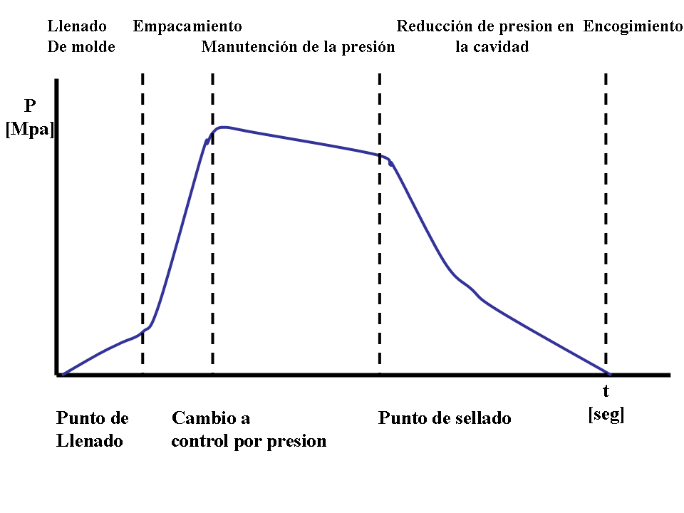 Ideal curve for mould cavity pressure